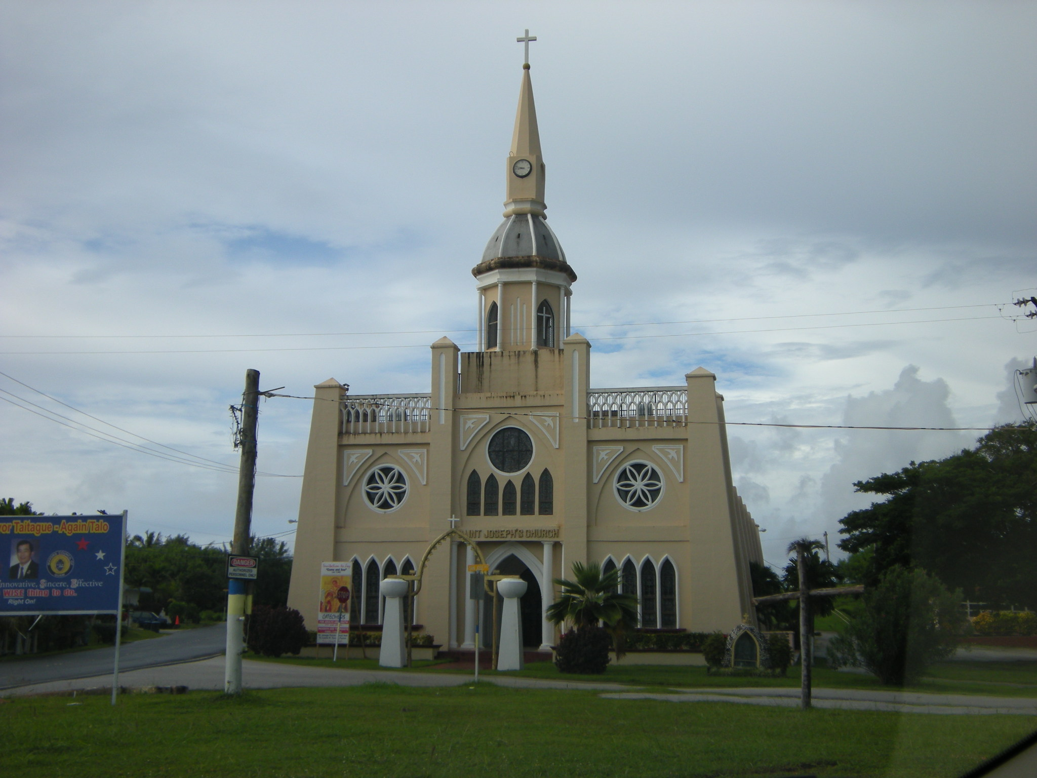 St. Joseph's Church 聖ヨセフ教会